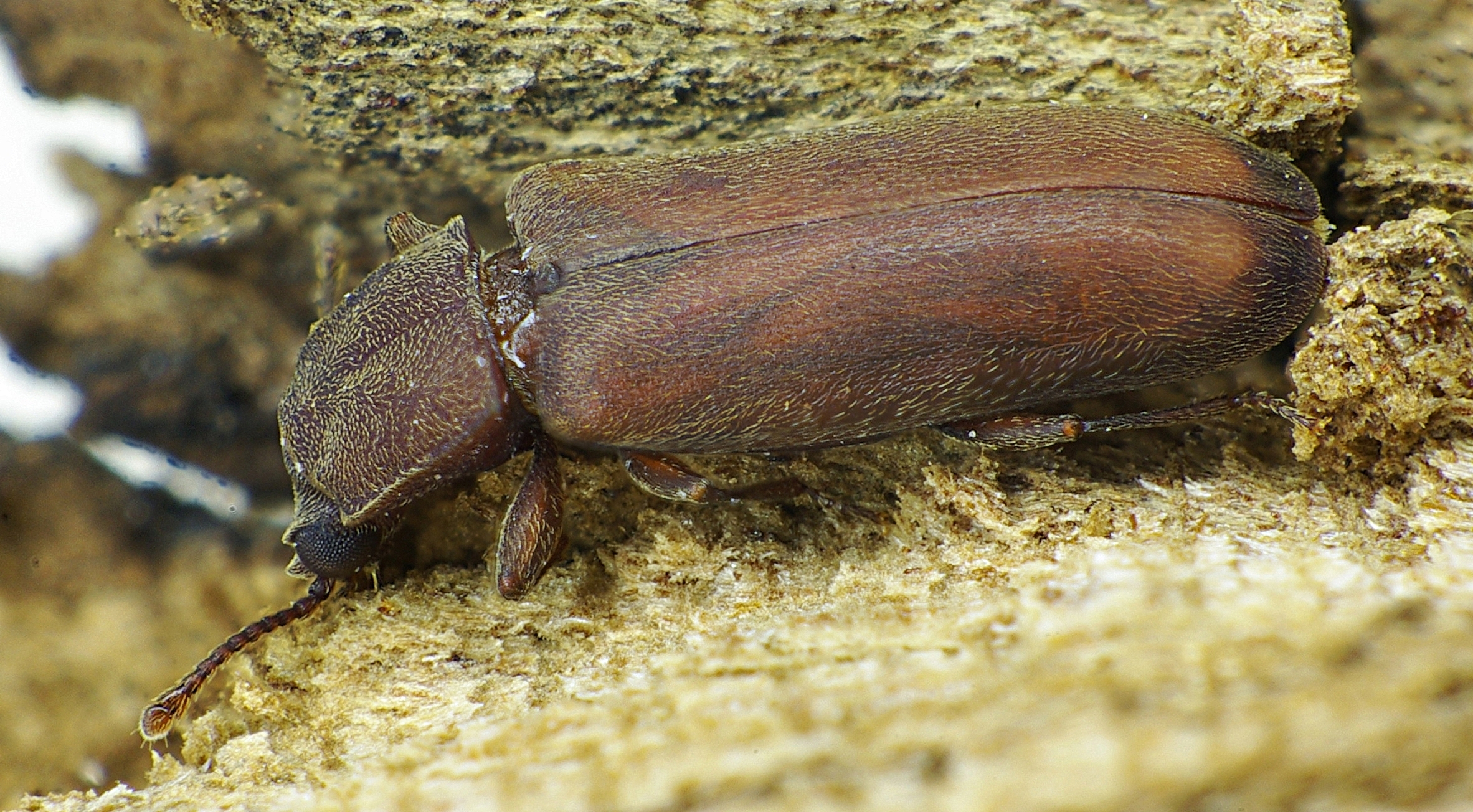 Trogoxylon impressum